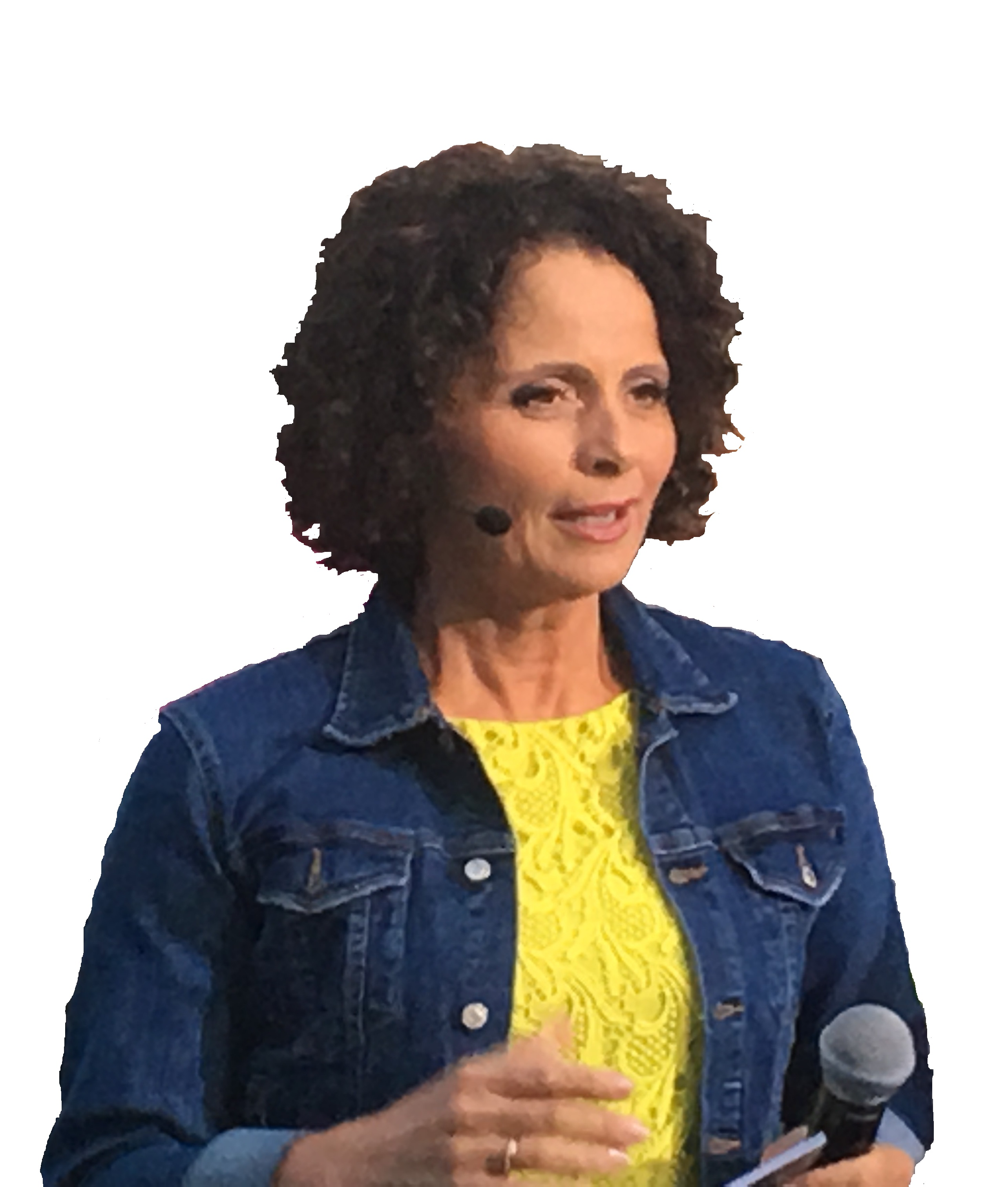 Norwegian TV anchor Nadia Hasnoui, image taken during production of the TV show "Sommeråpent" in july 2016, staged by the Norwegian State Broadcaster (NRK). The background is whitened in order to protect the privacy of bystanders.